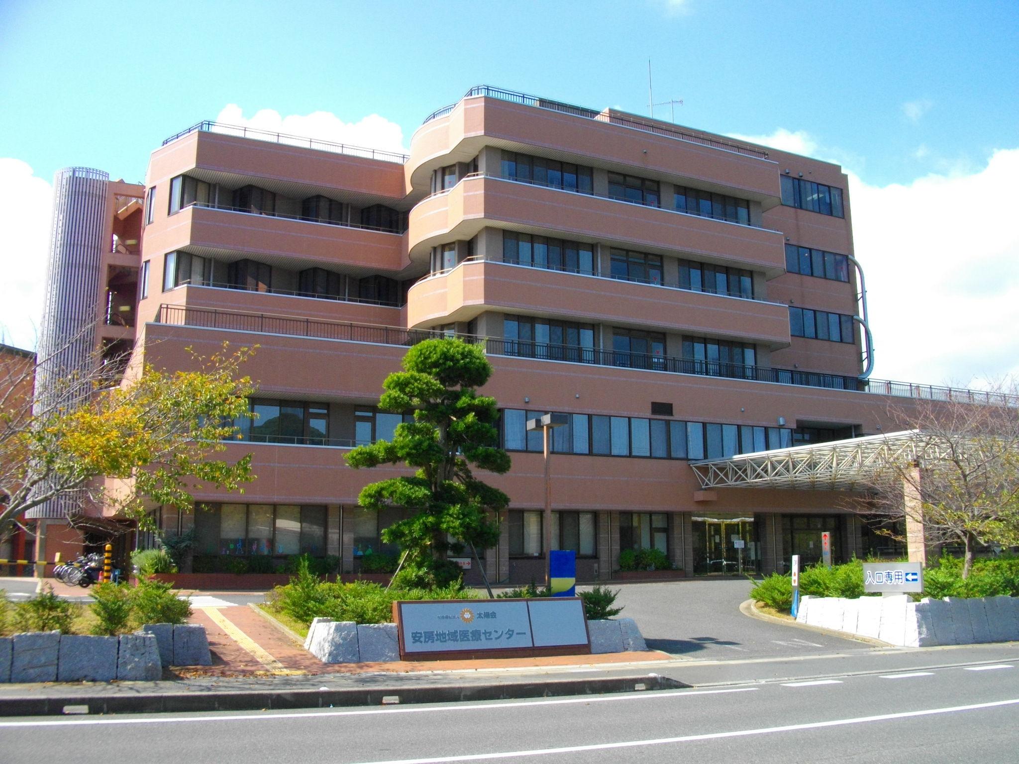 Awa Regional Medical Center